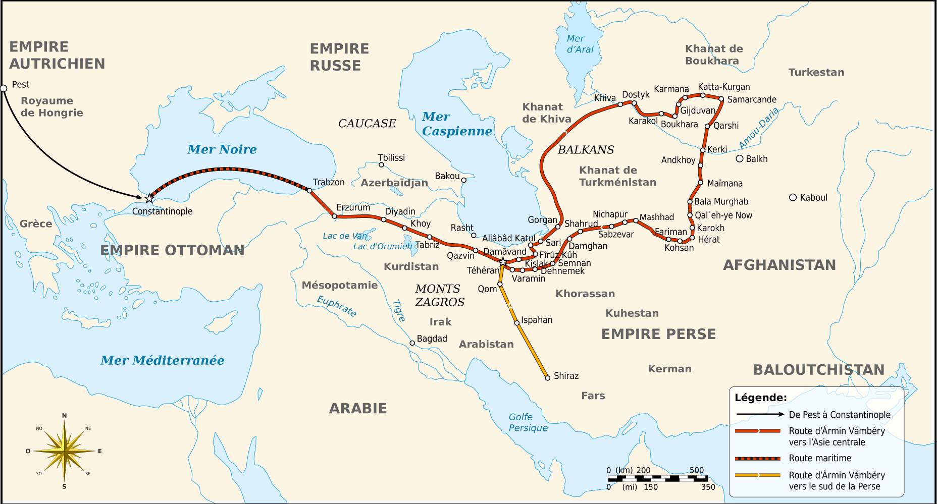 Map of the travel of Armin Vambery in Central Asia